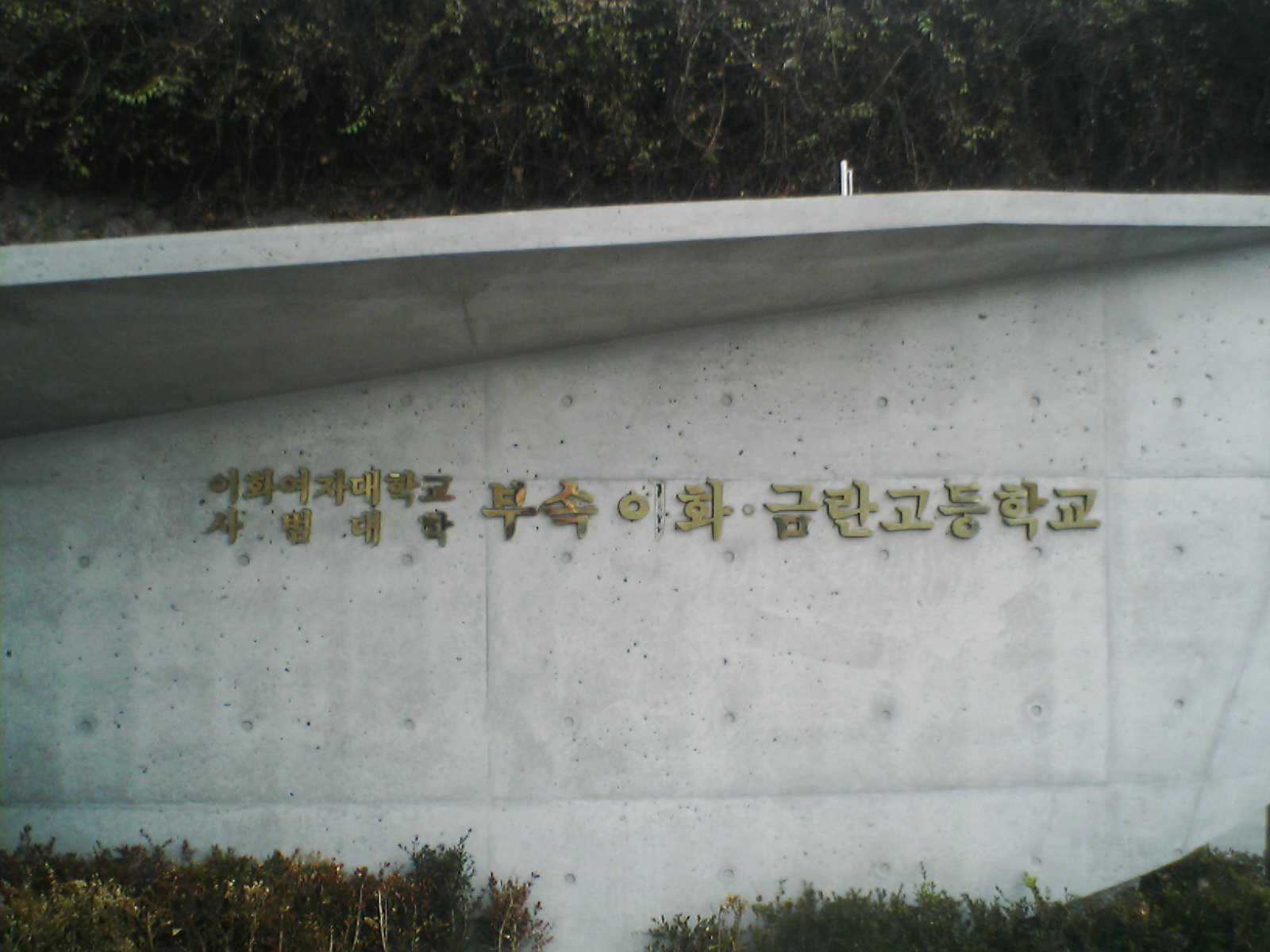 Ewha Women's University Ewha-Geumran High School, name of which (이화여자대학교 사범대학 부속 이화·금란고등학교) is considered to be one of the longest school name in Korea.